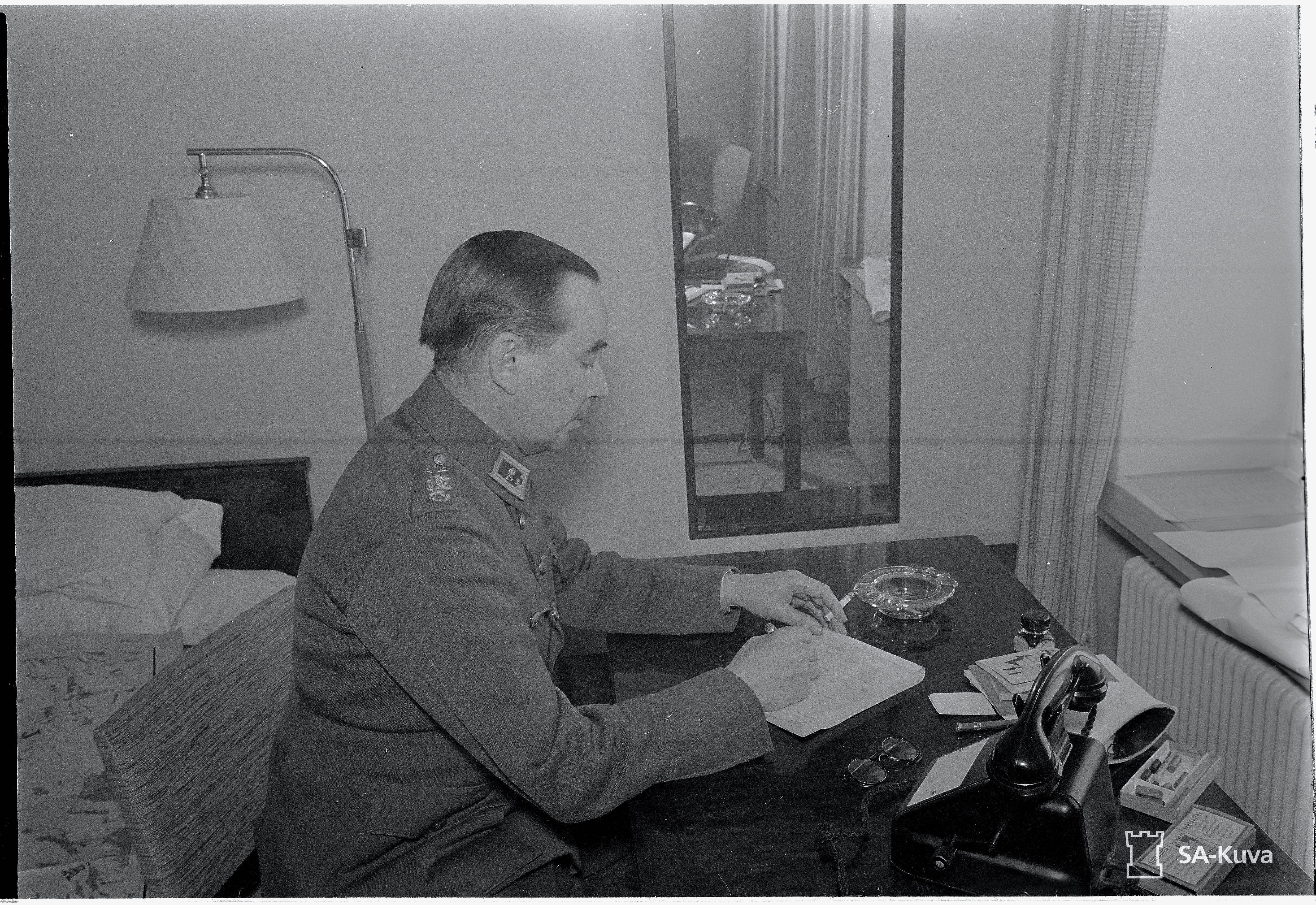 The commander of the Finnish IV Army, Major General Woldemar Hägglund 26th of March 1940.